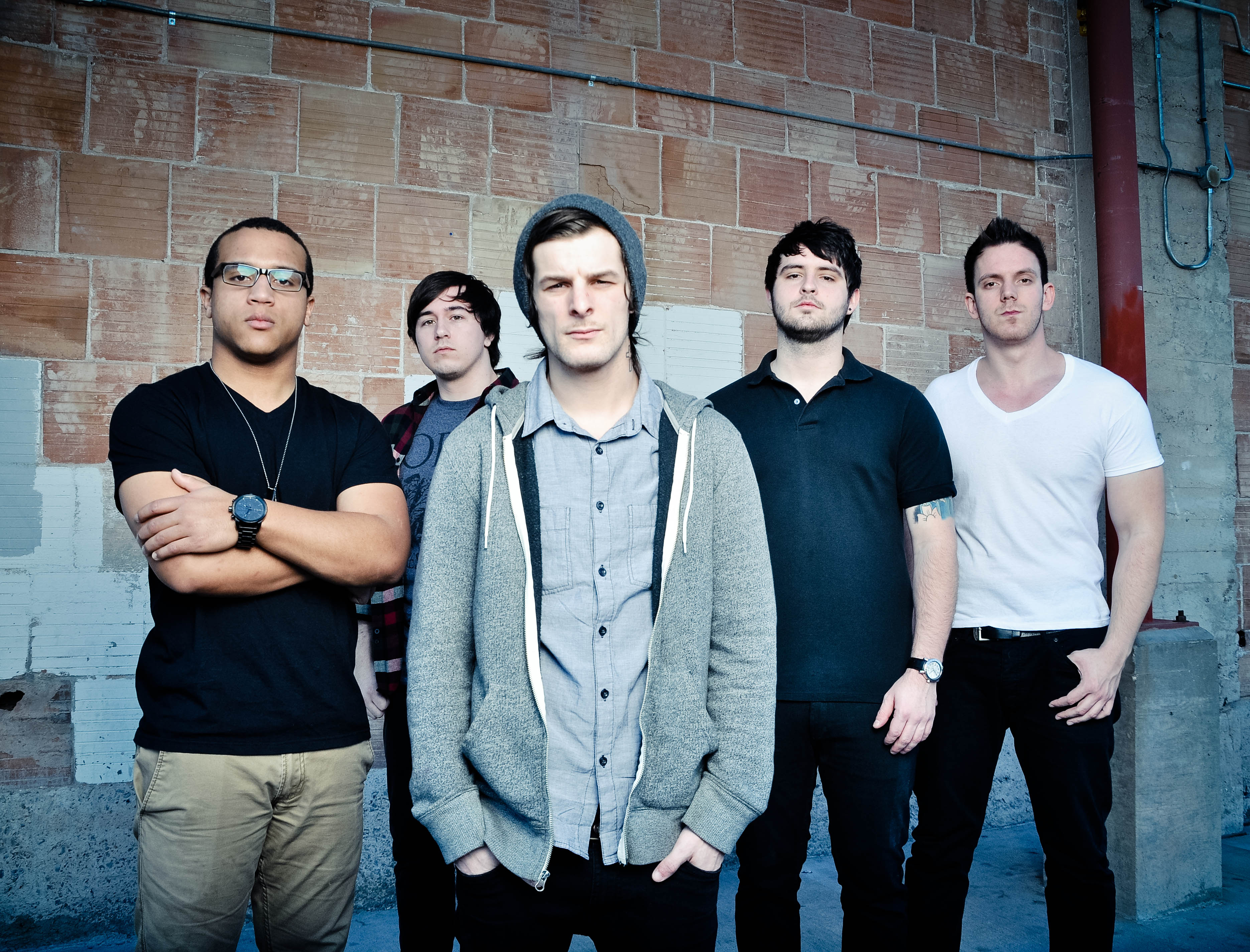 Band portrait of I, the Breather.